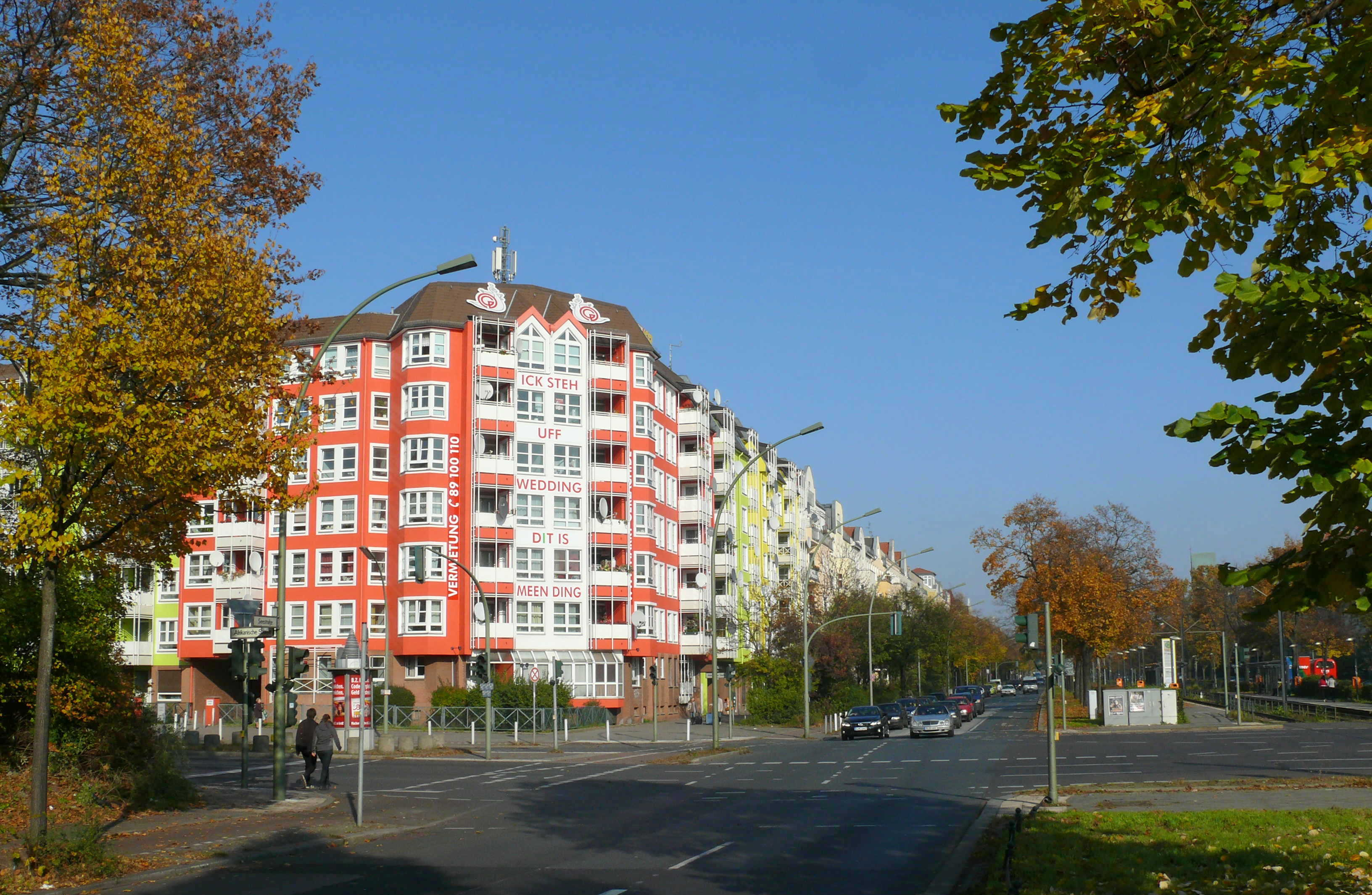 Berlin-Wedding Seestraße